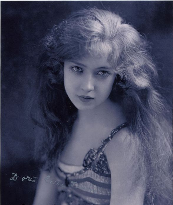 Doris Eaton Travis in her youth (somewhere around 1918-1920).